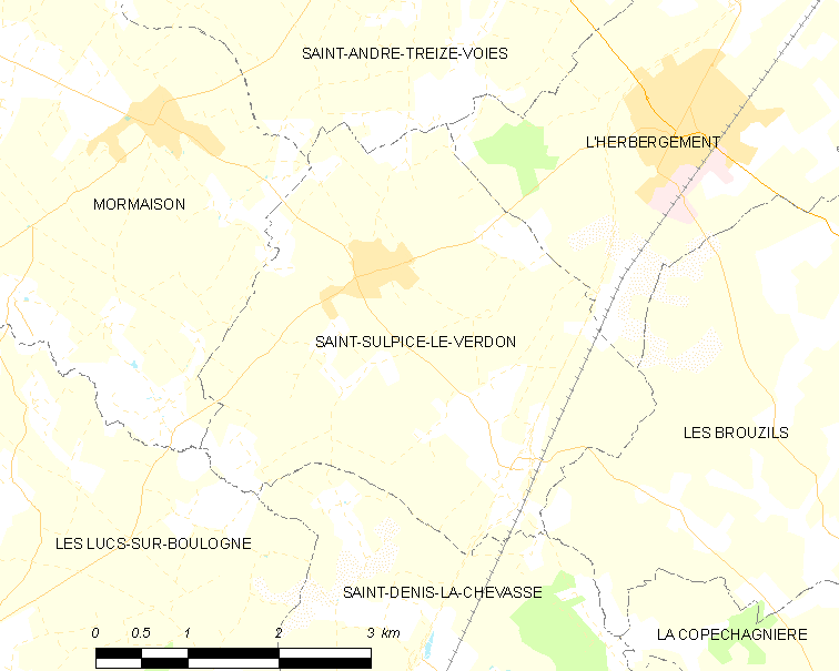 Map of French municipality Saint-Sulpice-le-Verdon